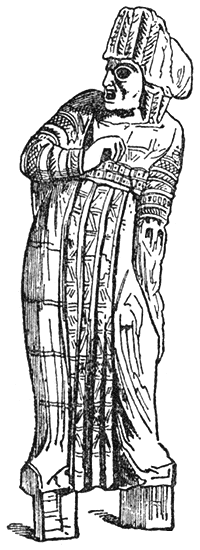 Acteur tragique. Dessin from the book: Dictionnaire des antiquités romaines et grecques / Daremberg Ch.-V. et Saglio E.